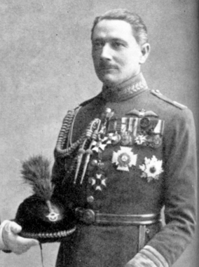 Photograph of Air Marshal Sir John Salmond wearing RAF full dress. Taken after a levée.